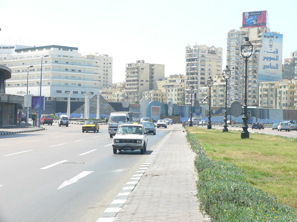 ElCorniche in Sidi_Gaber, Alexandria, Egypt.